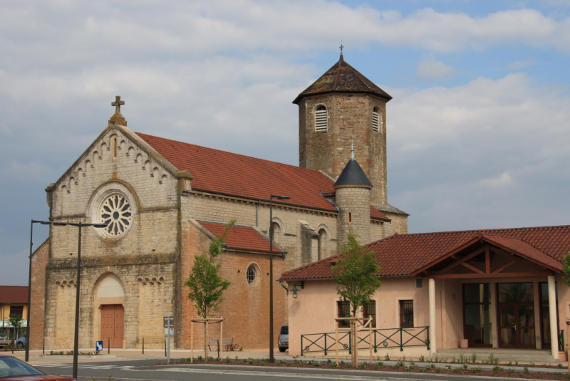 Church of Bage-la-ville (Ain, France)